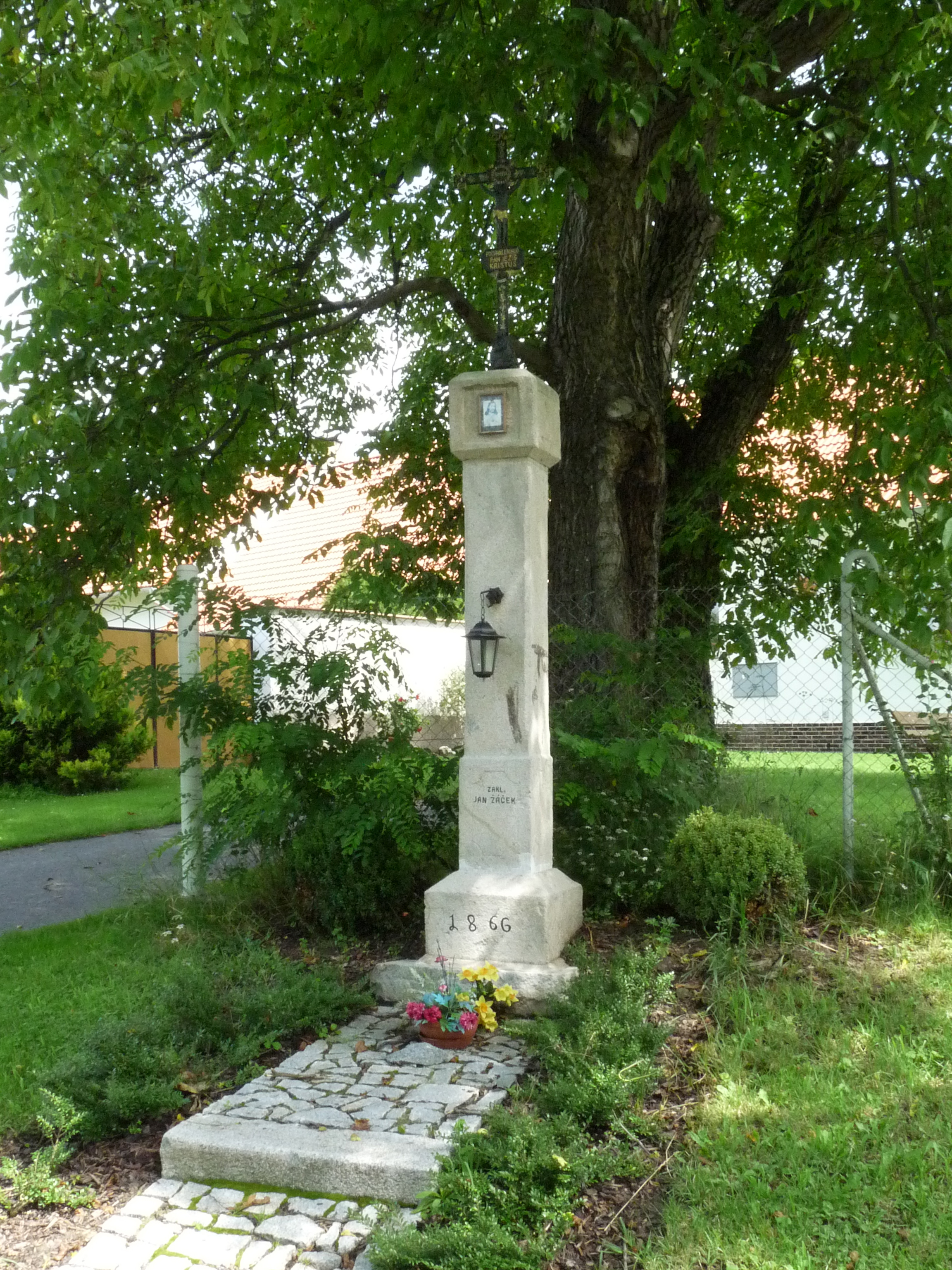 Cross dated from 1866 in Heřmaň, České Budějovice district, Czech Republic